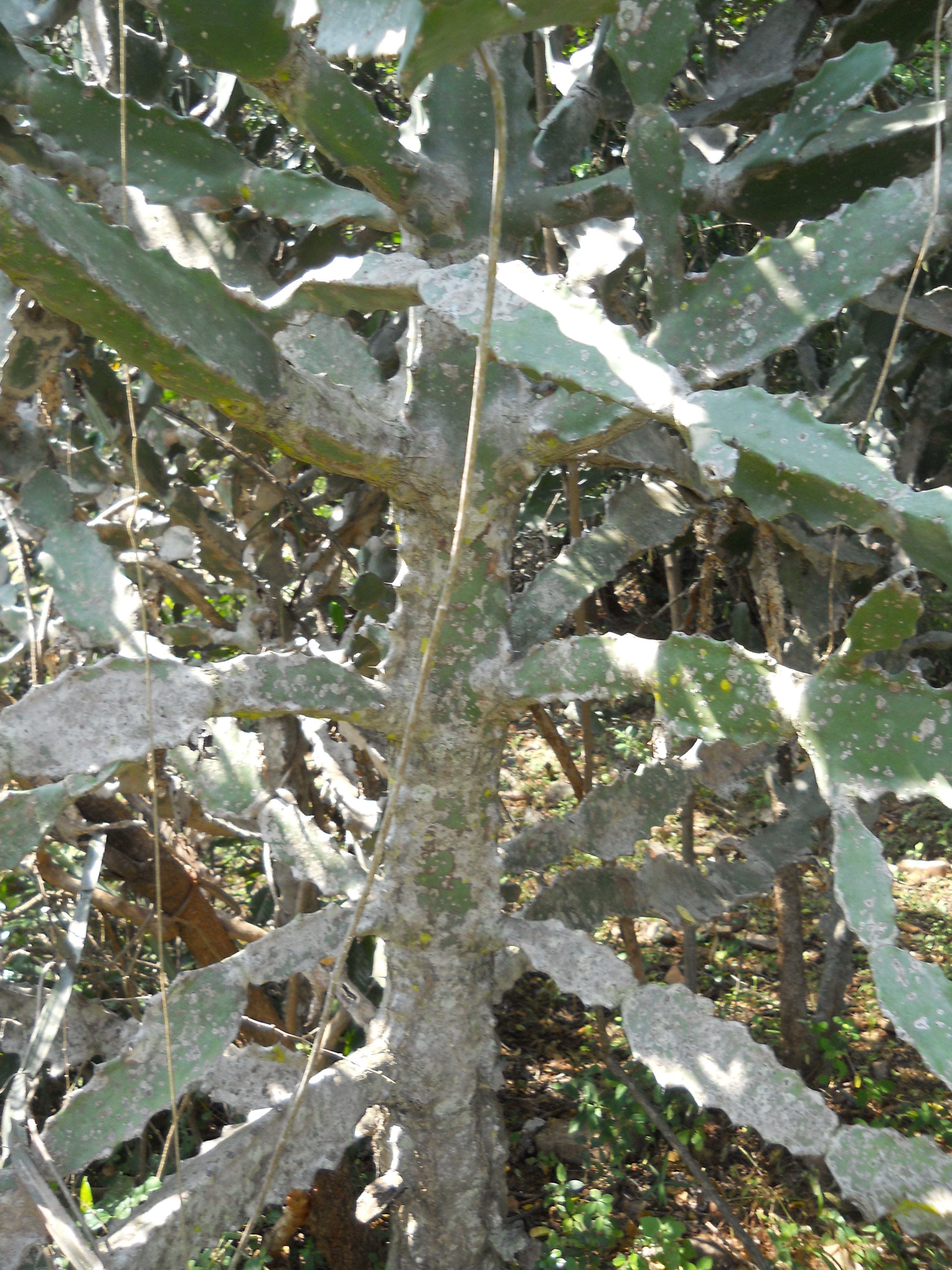 Euphorbia antiquorum at Nellore district, A.P. India.